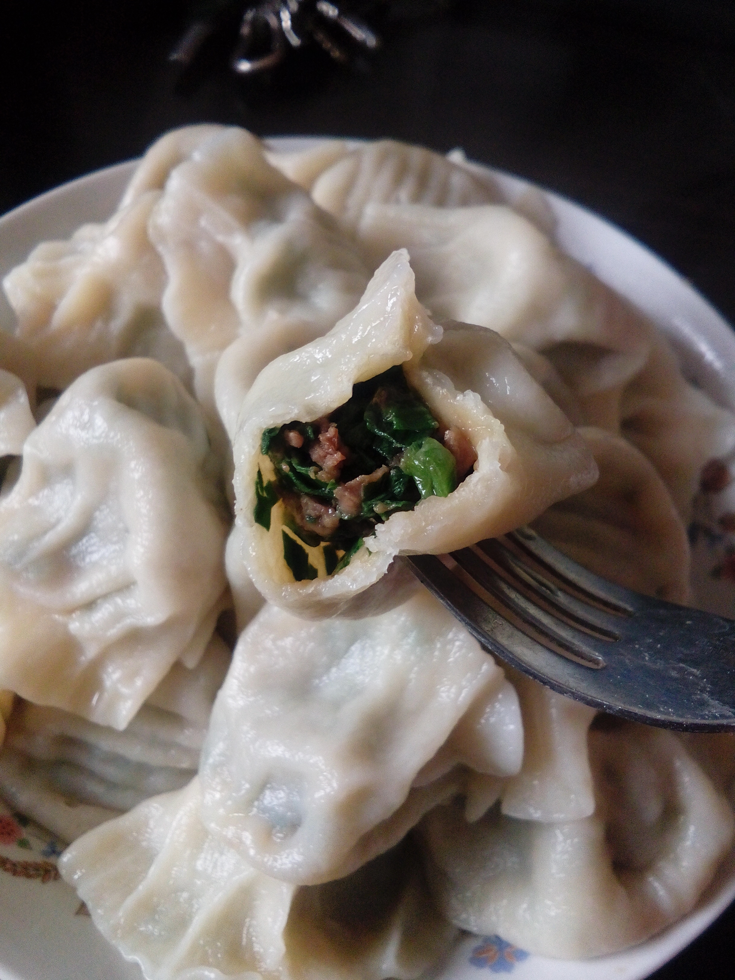 Jiaozi stuffed with leek.